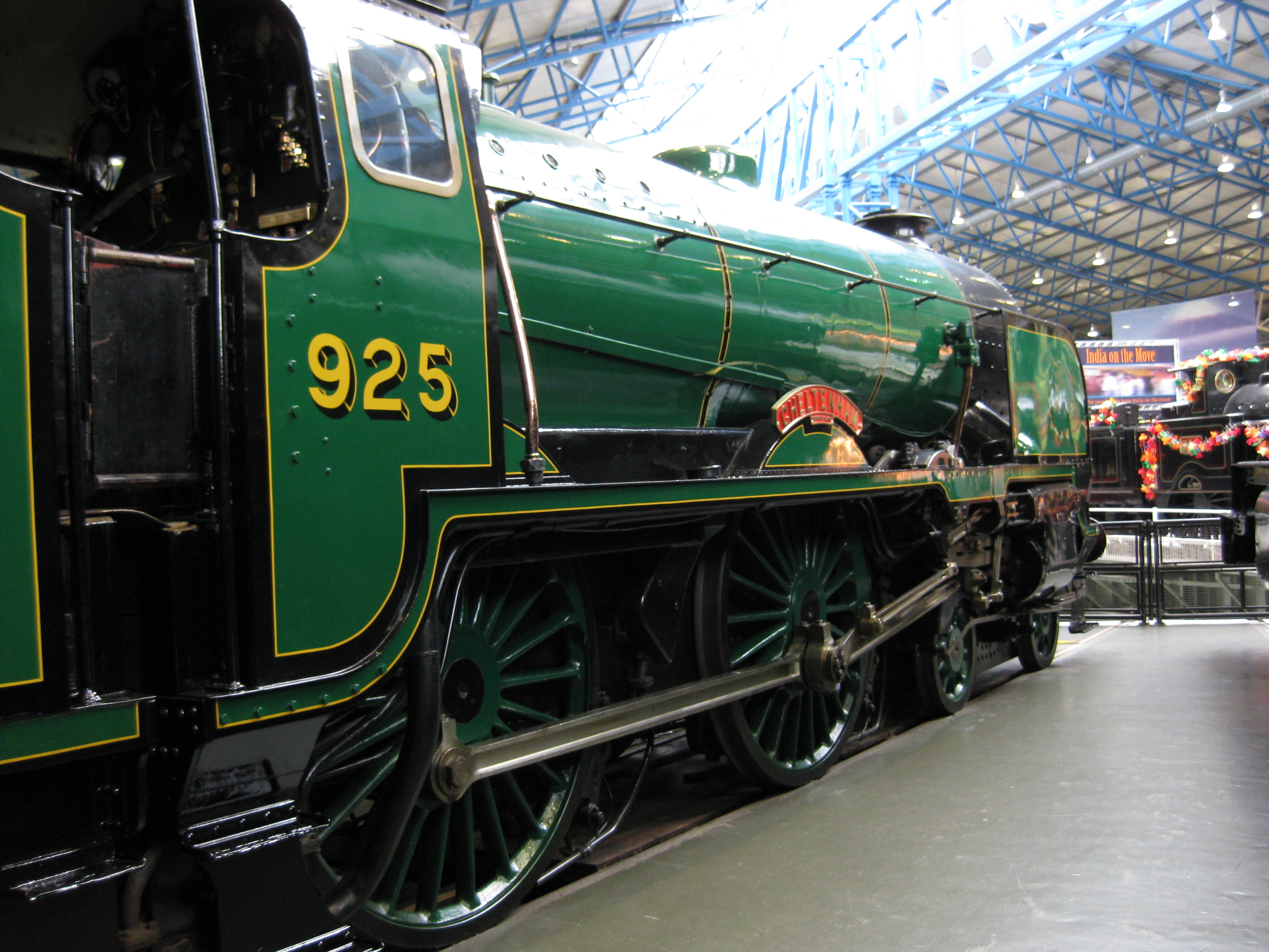 Schools Class locomotive No 925, Cheltenham, at National Railway Museum, York